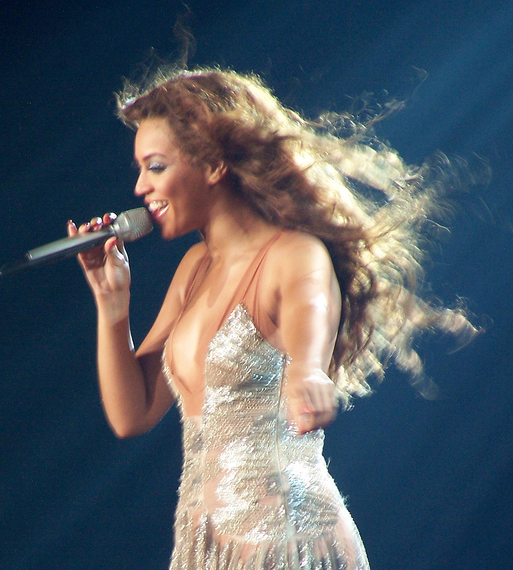 Beyoncé - Concert in Barcelona in 2007